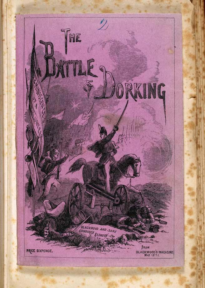 Front cover of the 1871 pamphlet edition of Sir George Chesney's The Battle of Dorking.